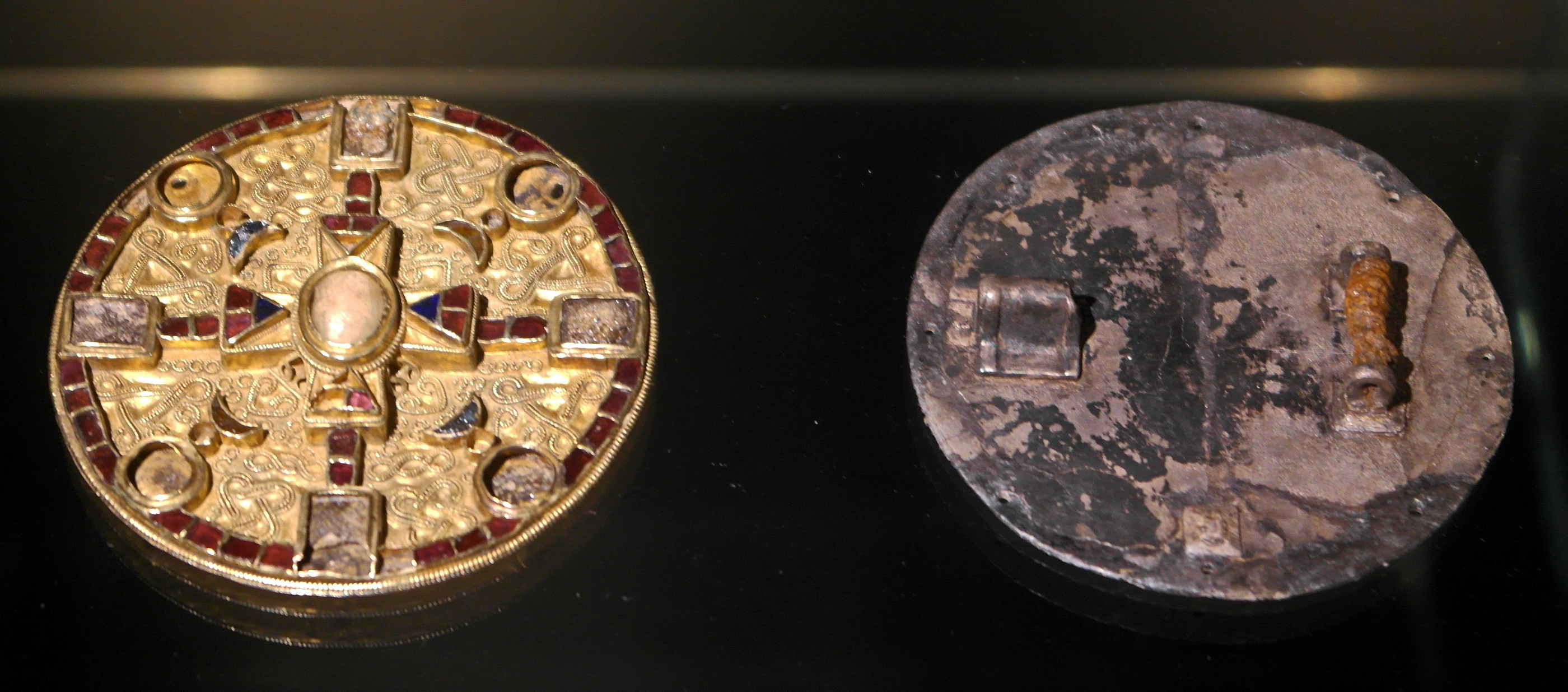 Disc fibula of Rosmeer, a Merovingian disc brooch (600-625 AD) found in 1969 in a woman's grave at Diepstraat in Rosmeer (near Tongeren), Belgium. The grave had been plundered but the brooch may have been hidden underneath cloths. The grave (nr. 90) also contained a glass beker and a gold coin of 610-620 AD. Gold plate, symmetrically decorated with filigree work in gold, and inlays of red almandine from Bohemia or India, as well as white and dark blue glass. Diameter: 6.4 cm. The Greek cross in the centre may indicate a Christian burial. Collection of Gallo-Romeins Museum, Tongeren. Photographed at the temporary exhibition Top or Topic in Centre Céramique in Maastricht, the Netherlands.